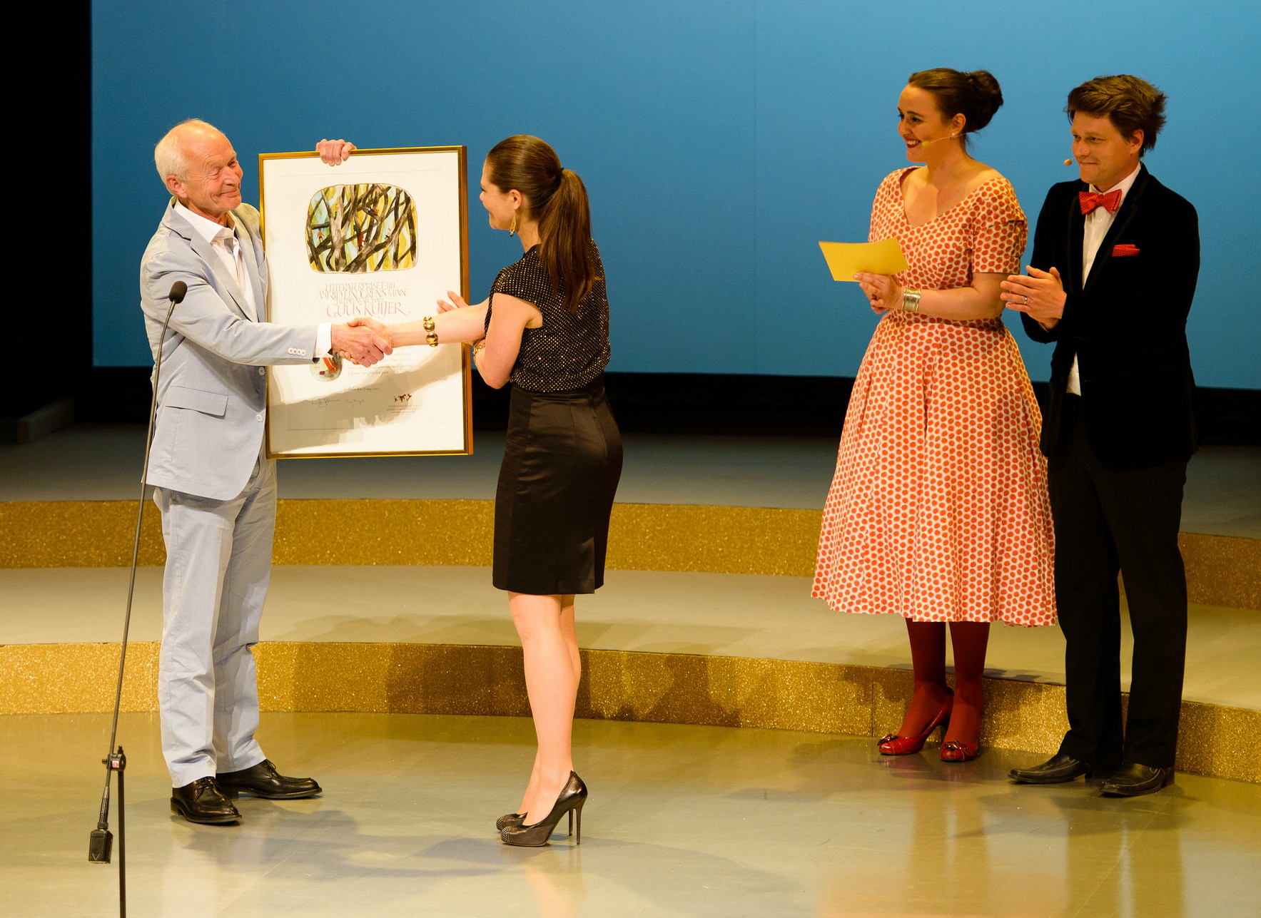 Crown Princess Victoria of Sweden presents the 2012 Astrid Lindgren Memorial Award (ALMA) to author Guus Kuijer at the Stockholm Concert Hall.